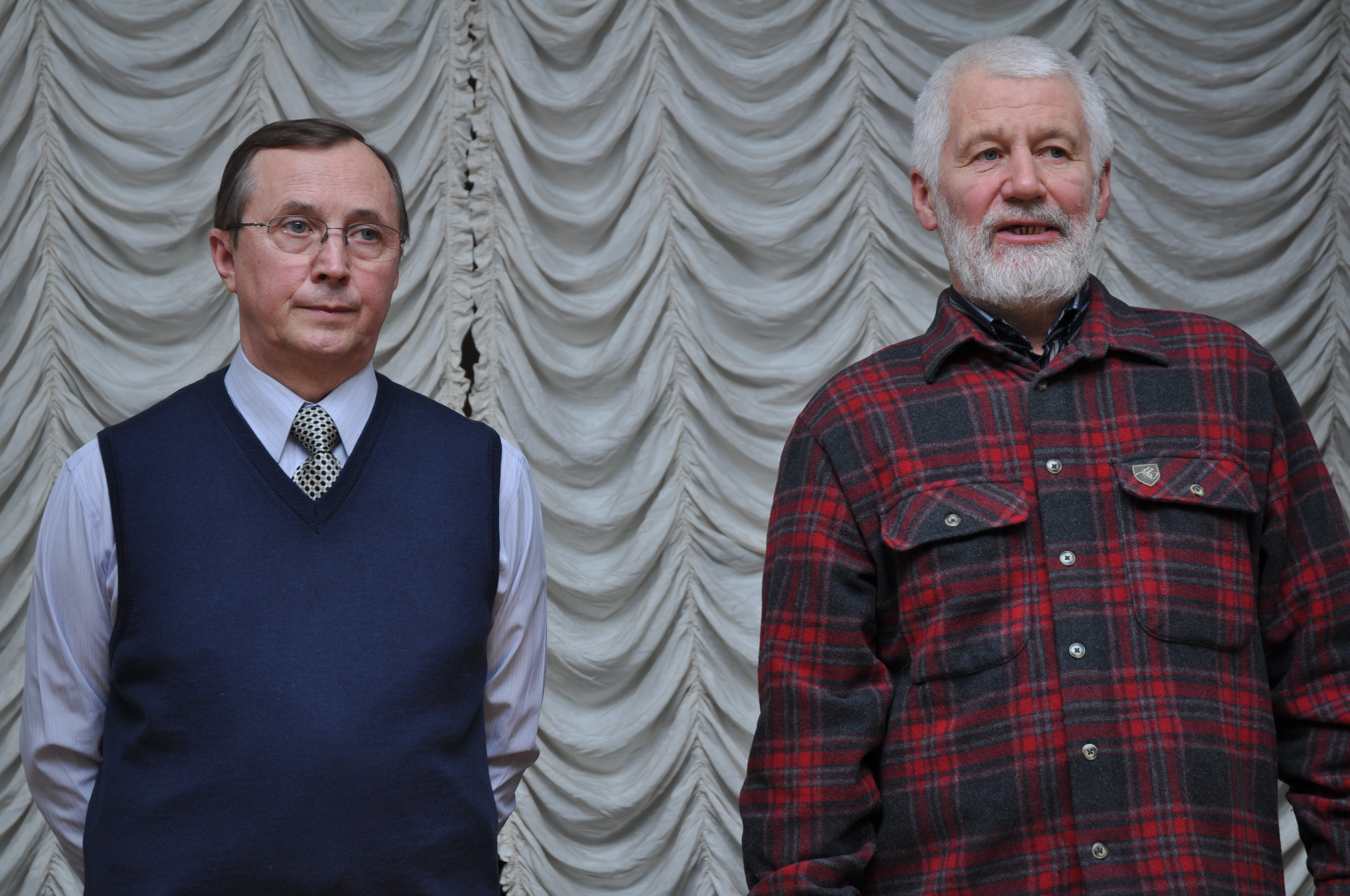 Russian actor Nikolai Burlyayev and rector of Maxim Gorky Literature Institute Boris Tarasov